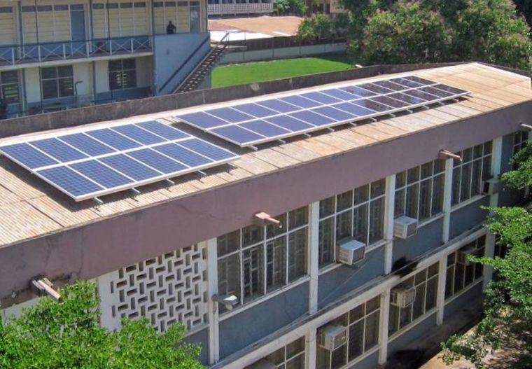 Solar panels on the roof of one of the building of the College of Engineering, KNUST, Kumasi, Ghana